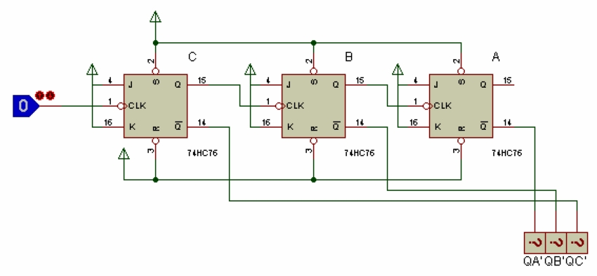 Counter